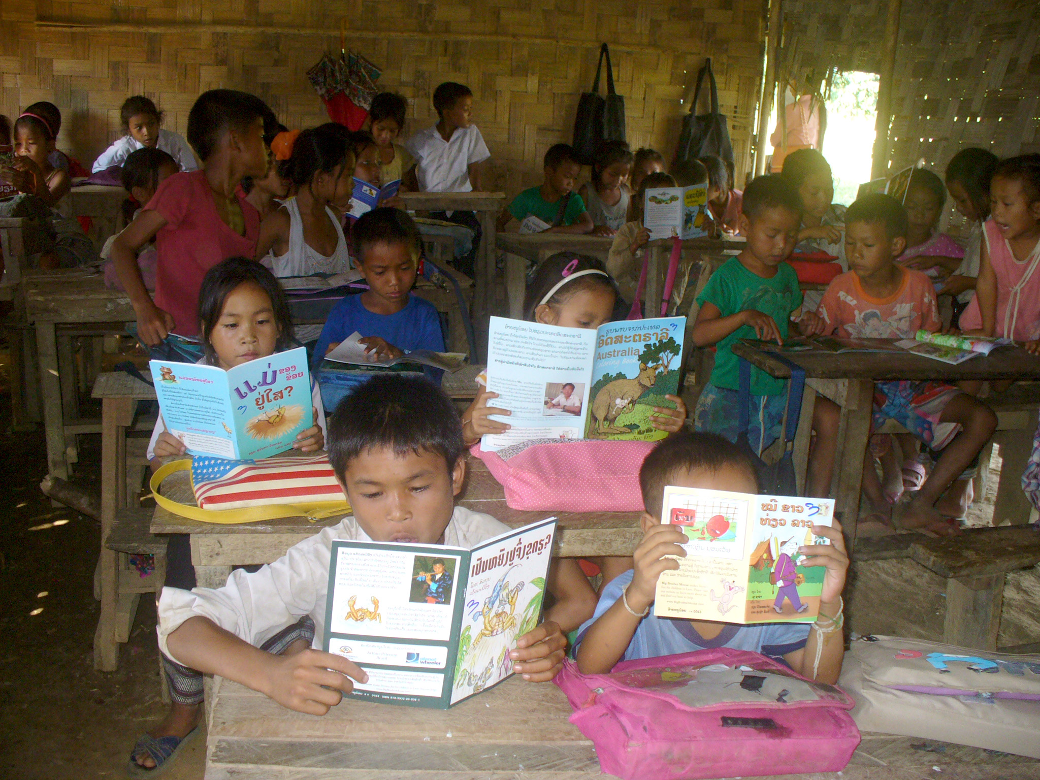 A new reading time at a primary school in rural Laos. This marked the first day of a "Sustained Silent Reading" period at the school, intended to improve literacy rates in a country where many children in third and fourth grade still have difficulty reading a sentence, because they've had so little practice. The books were provided by Big Brother Mouse, which promotes reading in Lao schools and villages.